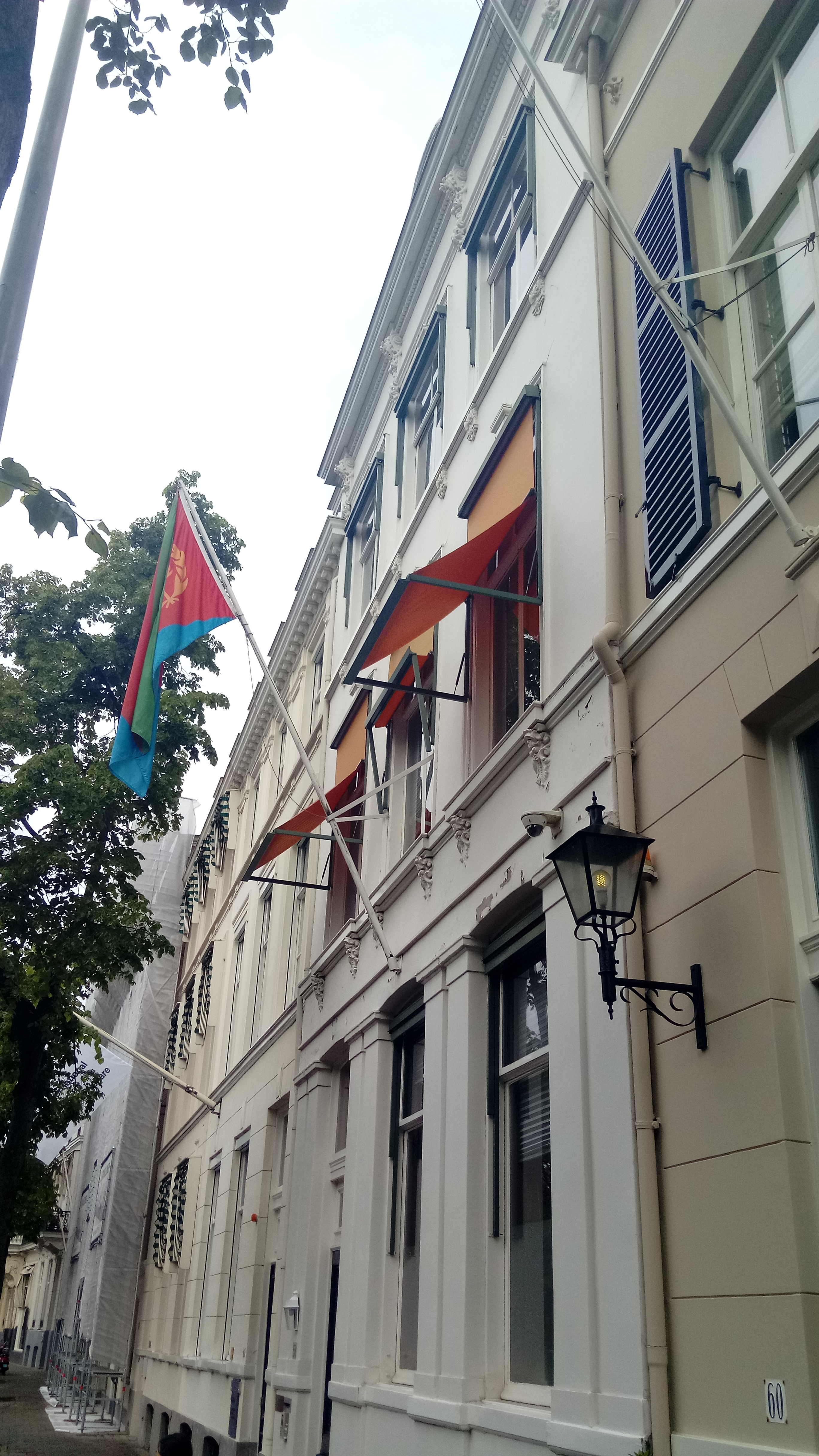 The embassy of the State of Eritrea in the city of The Hague, South Holland.